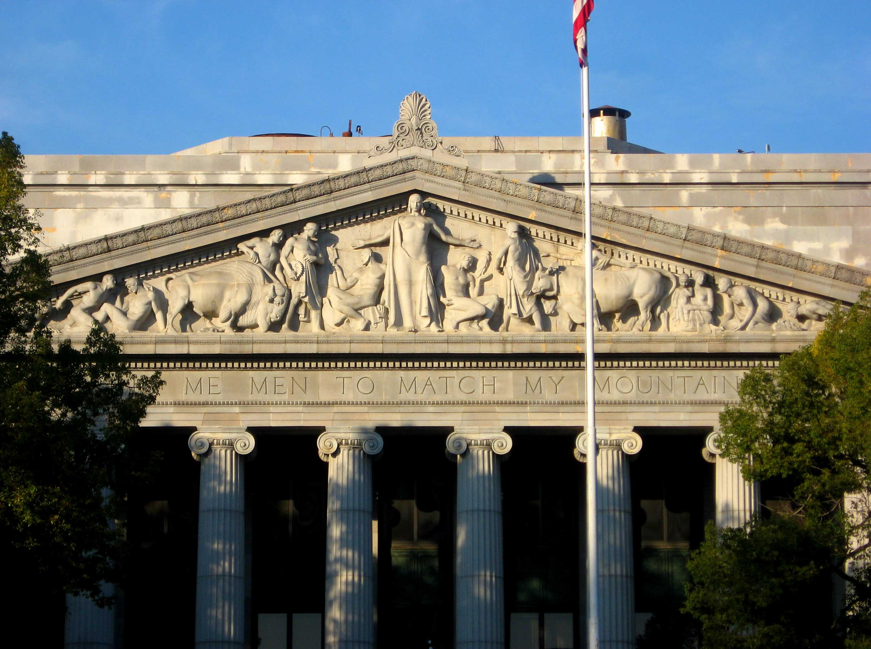 Detail of the Jesse M. Unruh State Office Building at 915 Capitol Mall in Sacramento, California, United States, built by Weeks and Day between 1913 and 1928. The pediment features a relief with a central female figure protecting power and knowledge, flanked by a buffalo, oxen and people. The inscription below reads "Bring me men to match my mountains," a quote by American poet Sam Walter Foss.